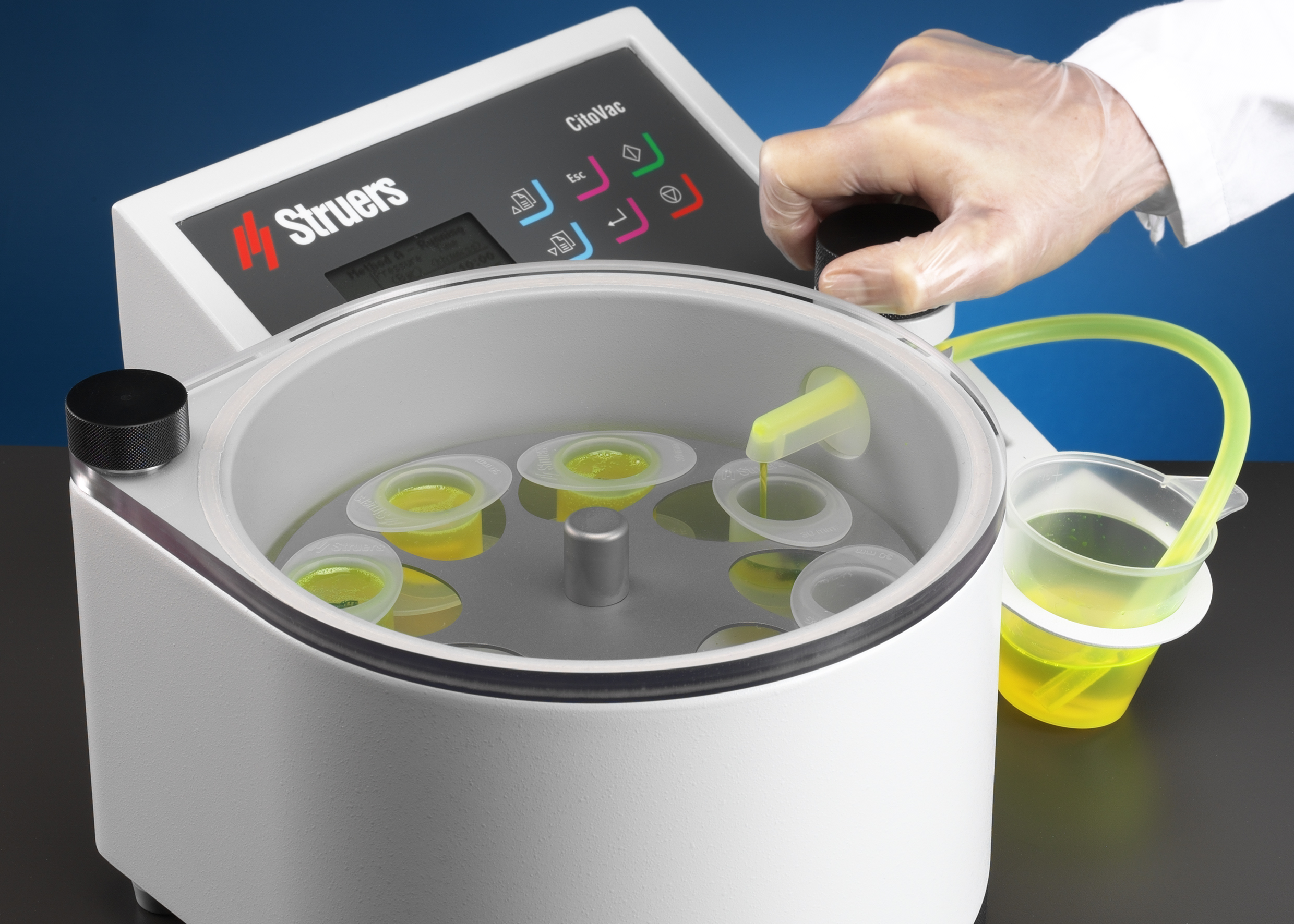 CitoVac vacuum impregnation unit